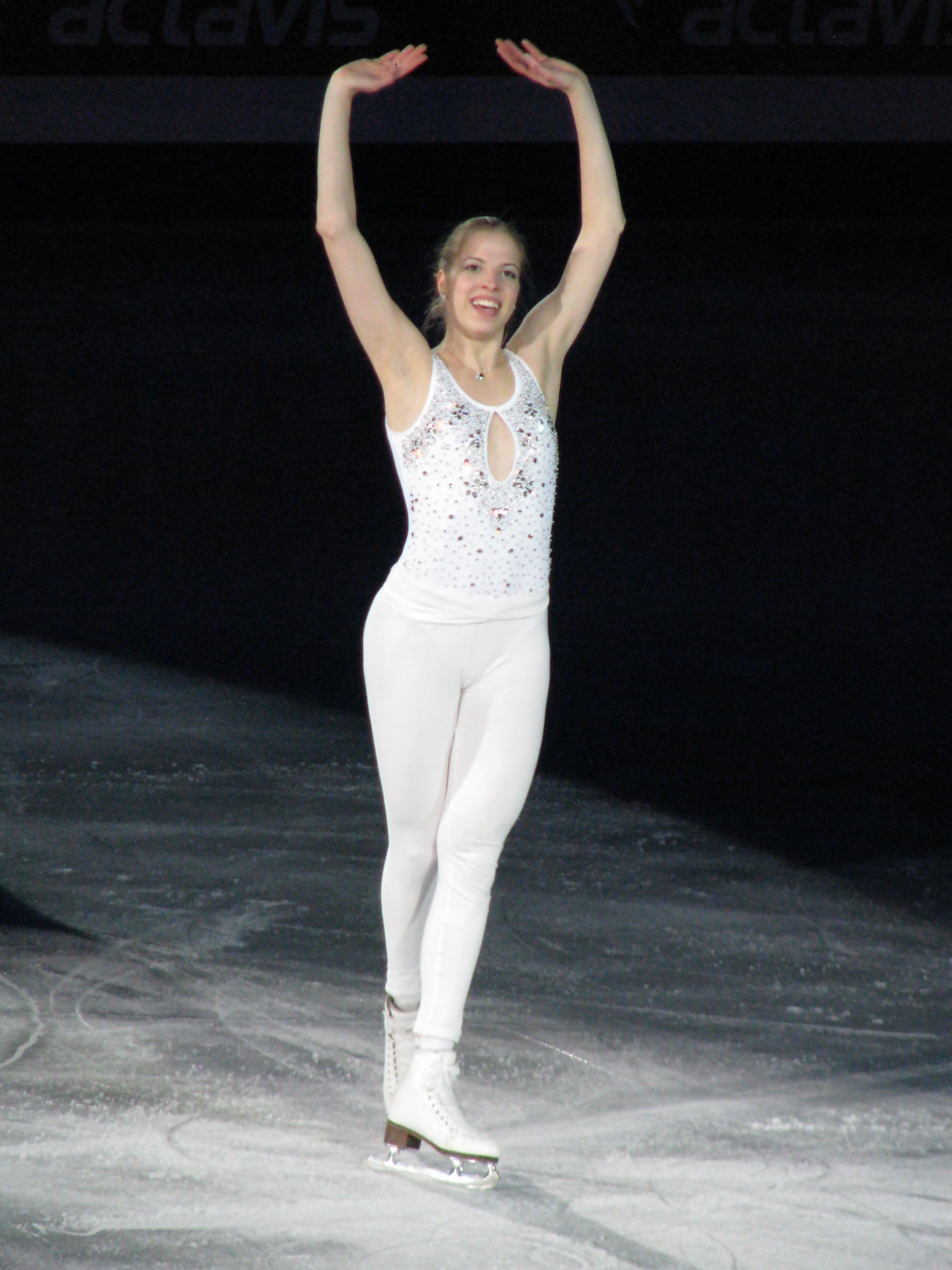 Carolina Kostner in 2010 European Figure Skating Championships (Gala)